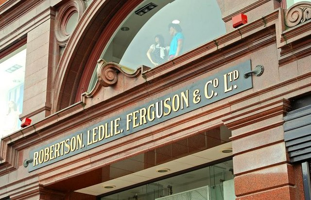 The Bank Buildings, Belfast (detail). See 432297. The unaltered exterior includes the name of the original owners, above the entrance from Donegall Place.